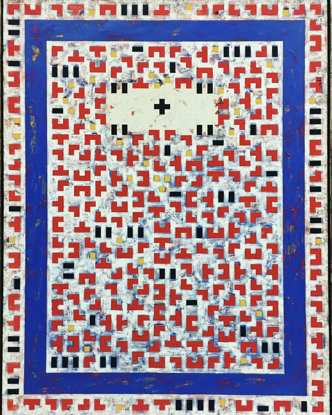 Painting in oil completed in 1983 and exhibited at the reopening of the Robert Fraser Gallery in Cork Street. Representing the First Station of the Cross, Clarke painted in while living in Rome.